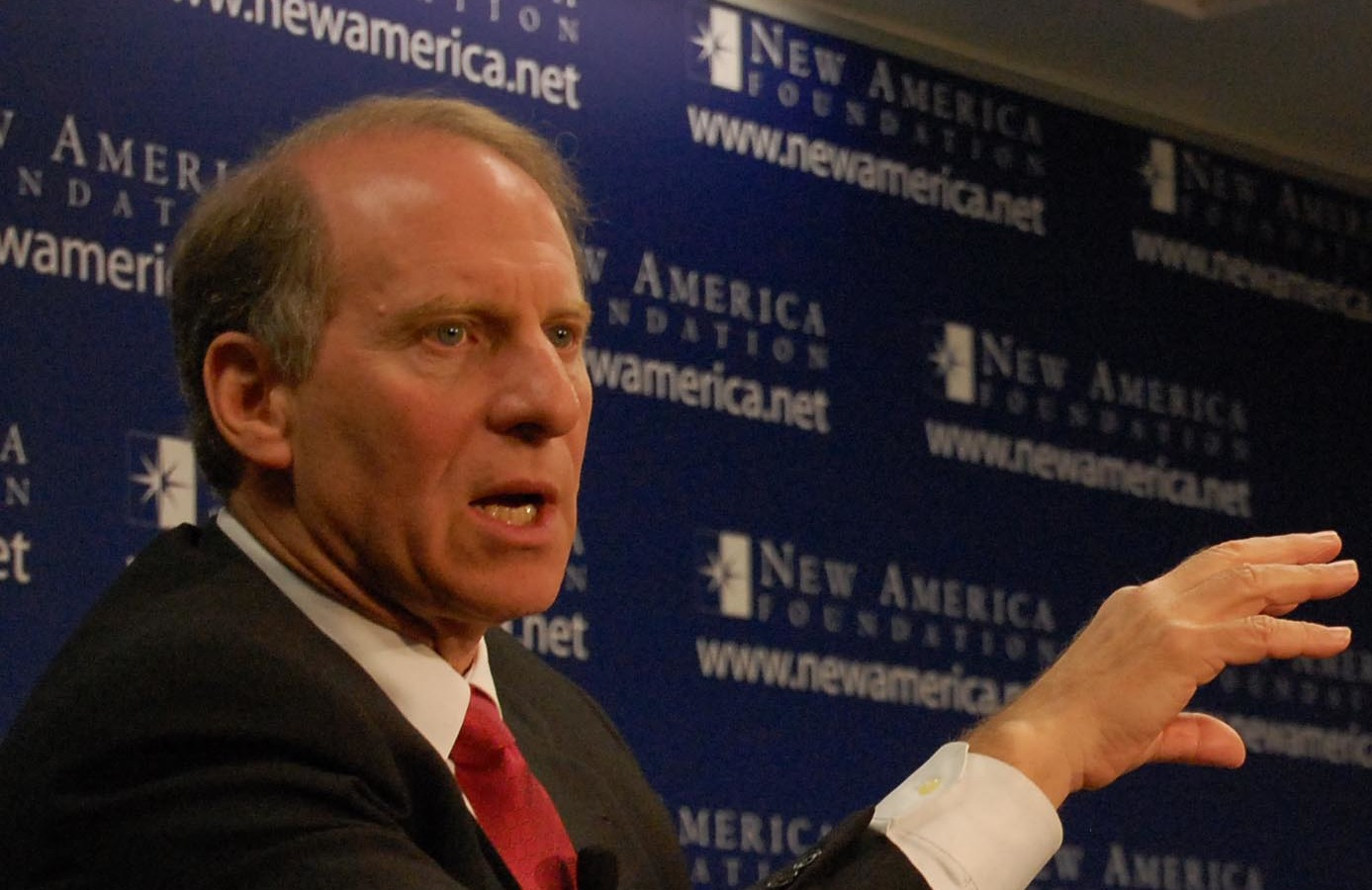 Richard N. Haass, President, Council on Foreign Relations and Steve Coll, CEO and President, New America Foundation